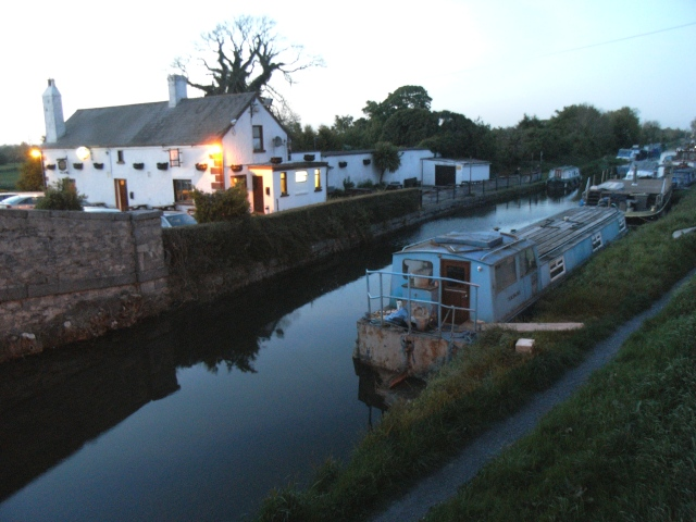 Grand Canal at Hazelhatch, Co. Dublin Nearly dark, time for a quick visit to McEvoy's Pub.